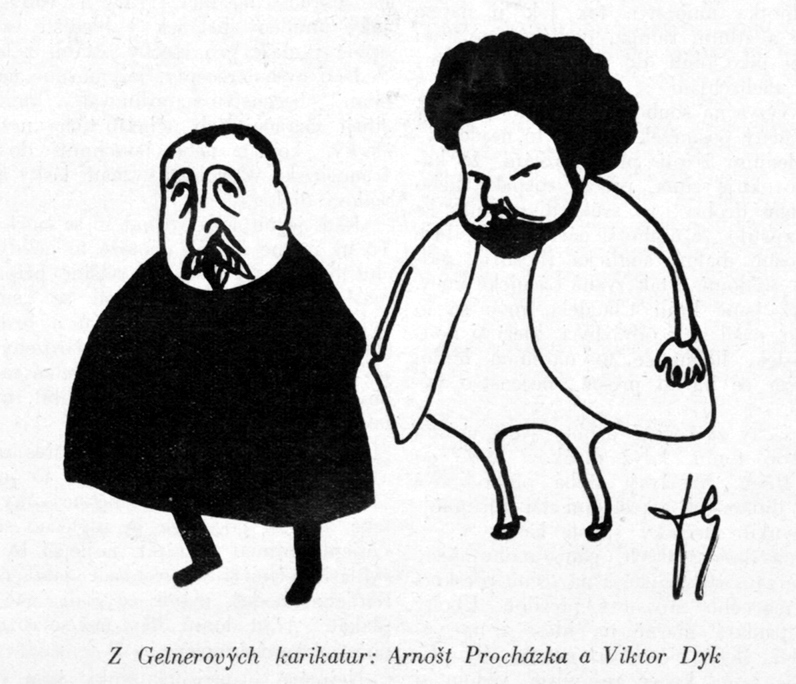 Arnošt Procházka and Viktor Dyk, Czech poets.